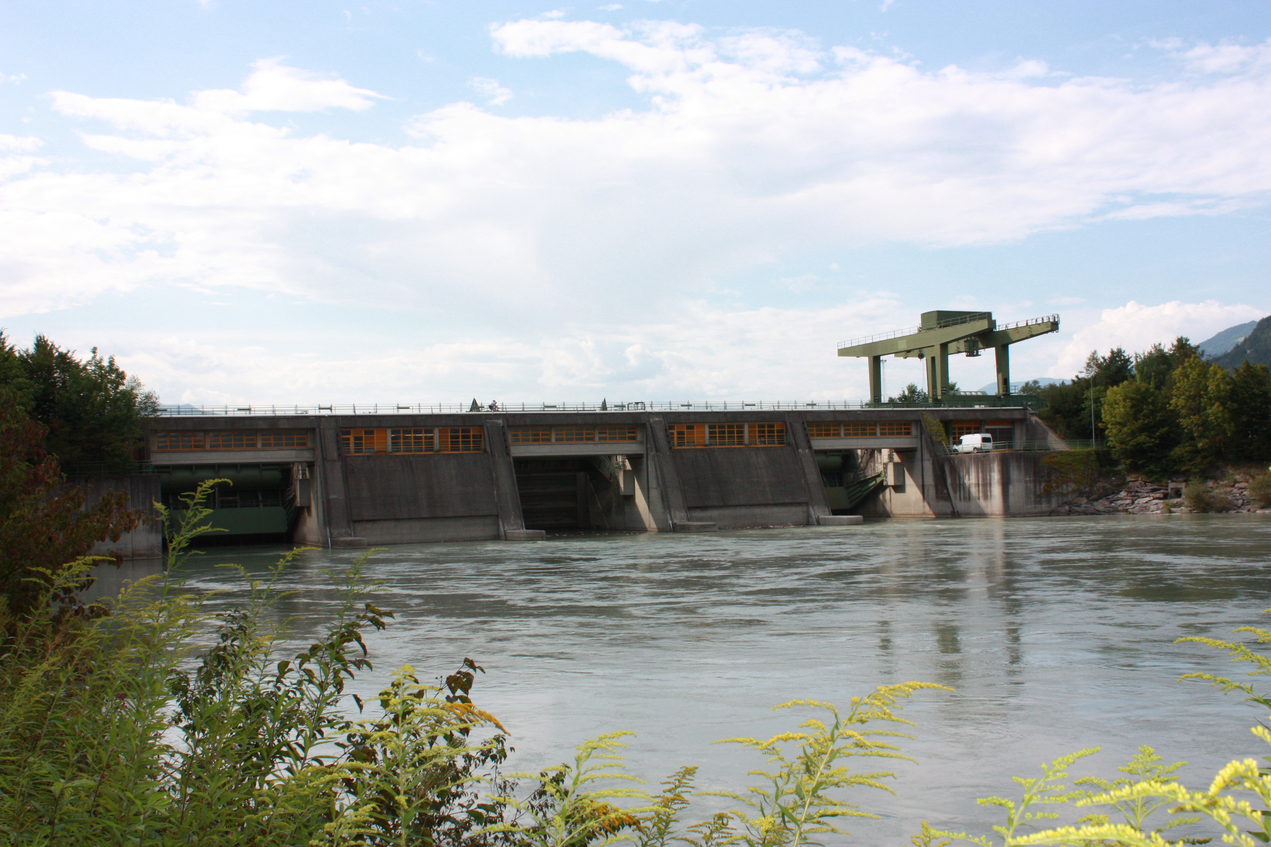 Run-of-the-river hydroelectricity - Kellerberg Locality: Weißenstein Community:Weißenstein